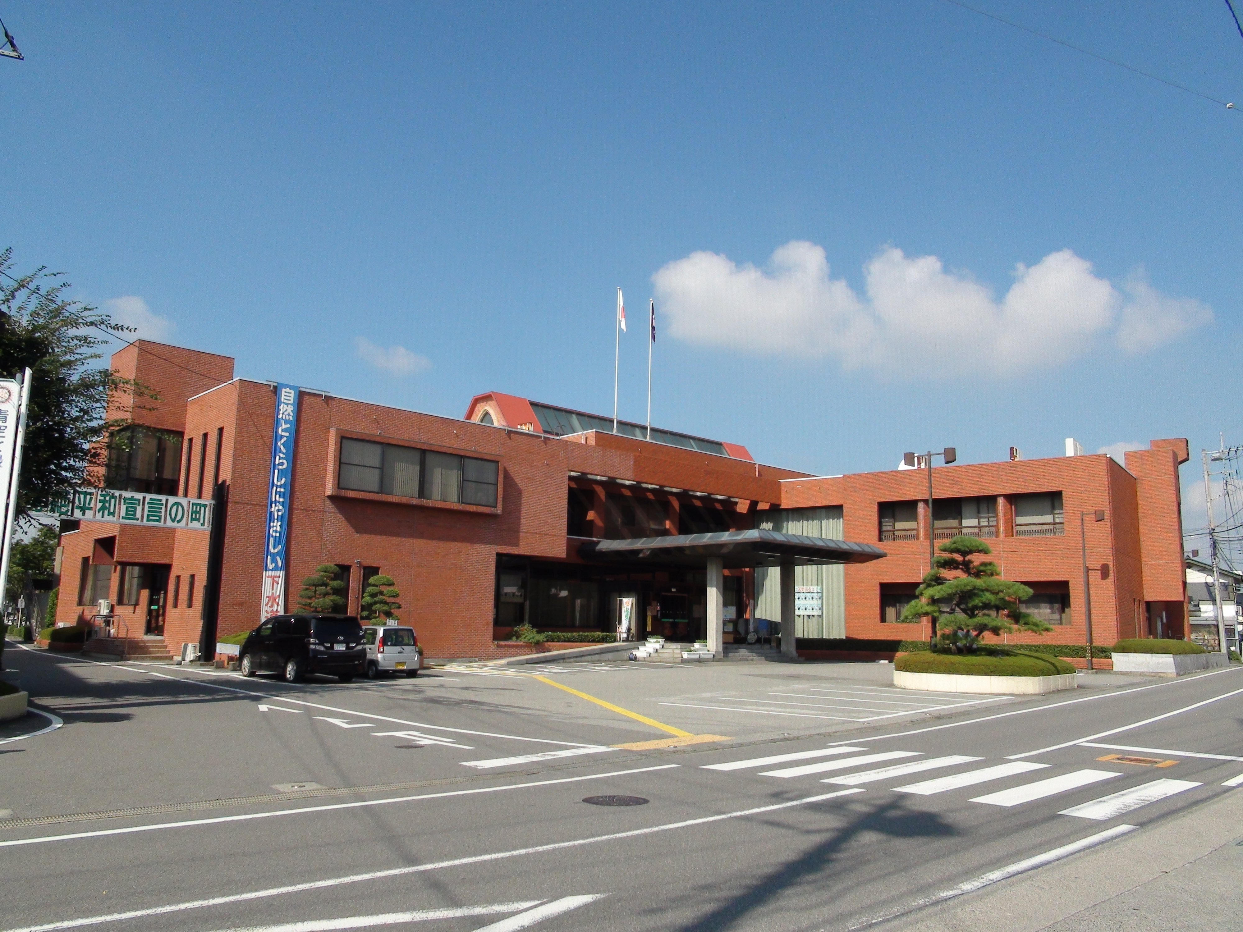 Showa town office Yamanashi prefecture